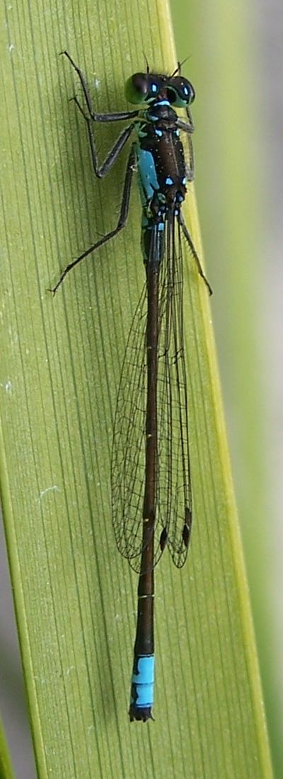 Pacific forktail. Male